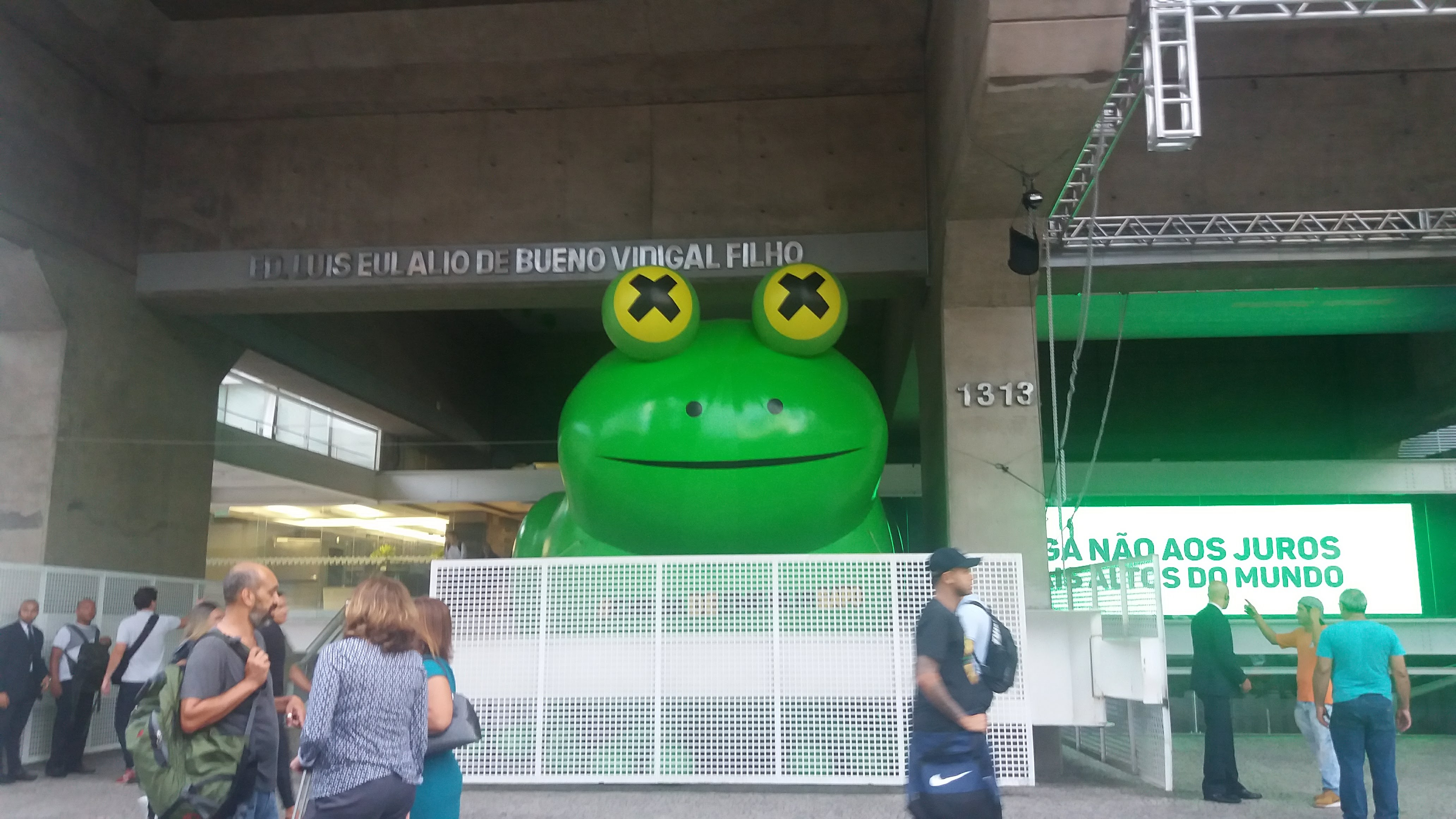 "Chega de Engolir Sapo" is the campaign motto of FIESP against the interest rates in Brazil, launched in March 2018.